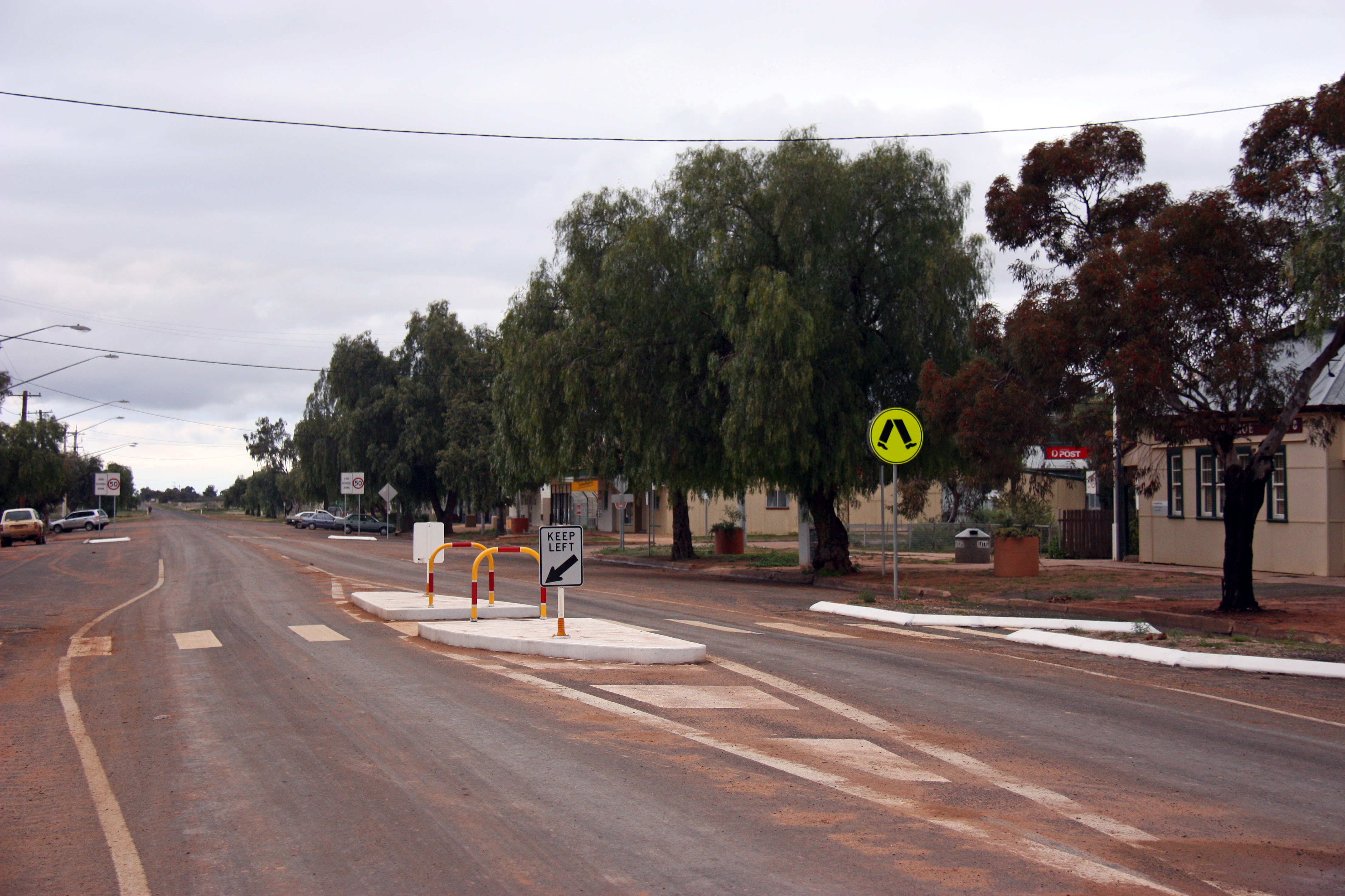 Main Street of the town of Ivanhoe.